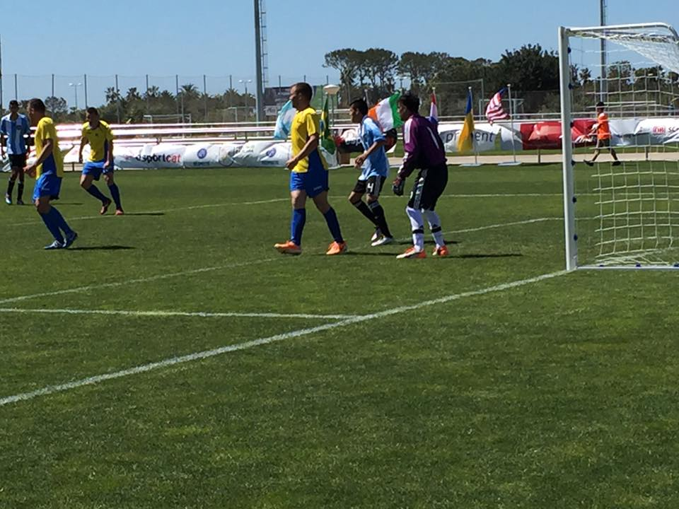 Photo taken at IFCPF Pre Paralympic Tournament Salou 2016 using personal iPhone.